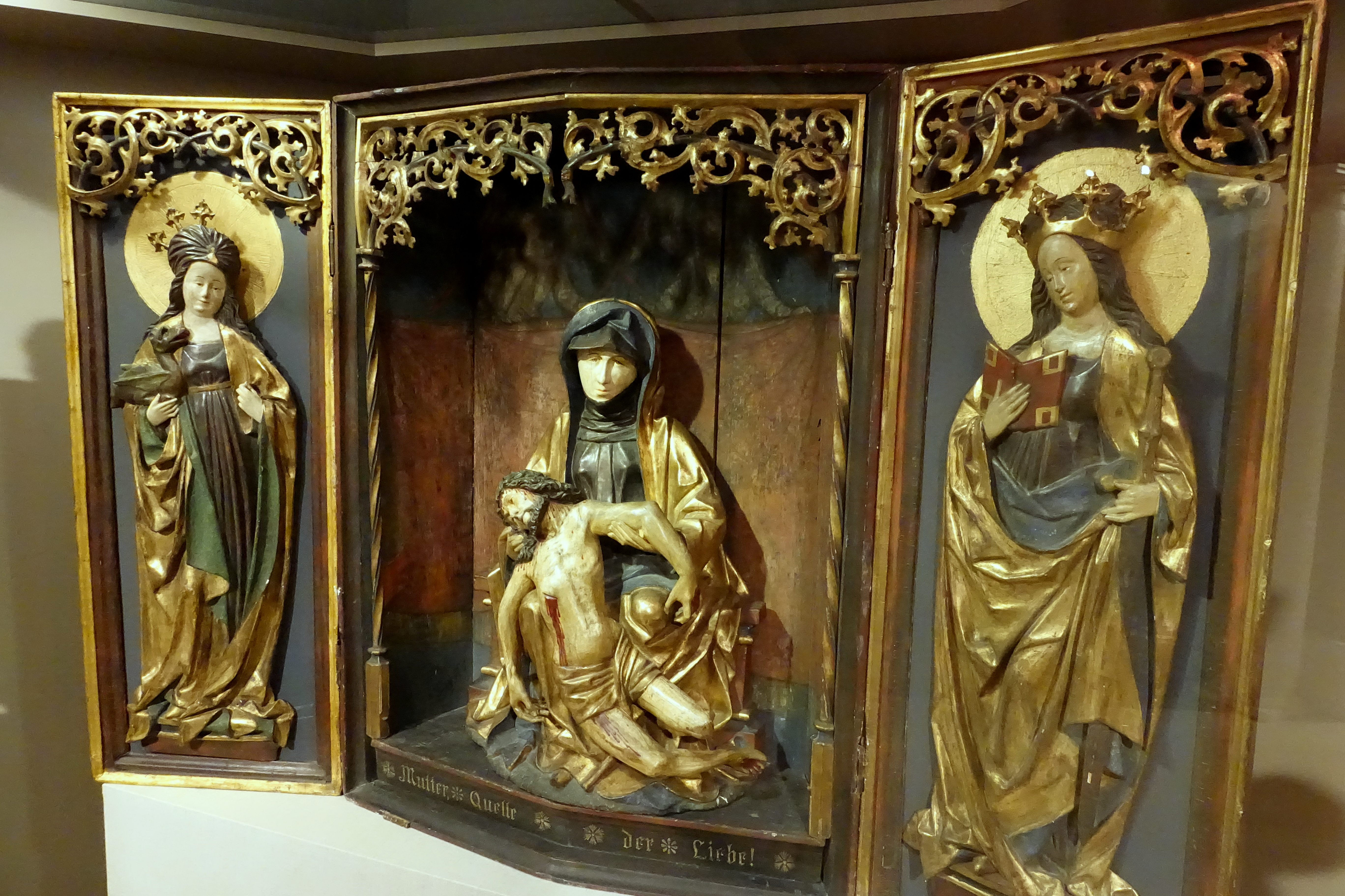 Exhibit in the Spurlock Museum, University of Illinois at Urbana-Champaign - Urbana-Champaign, Illinois, USA. This work is old enough so that it is in the public domain.